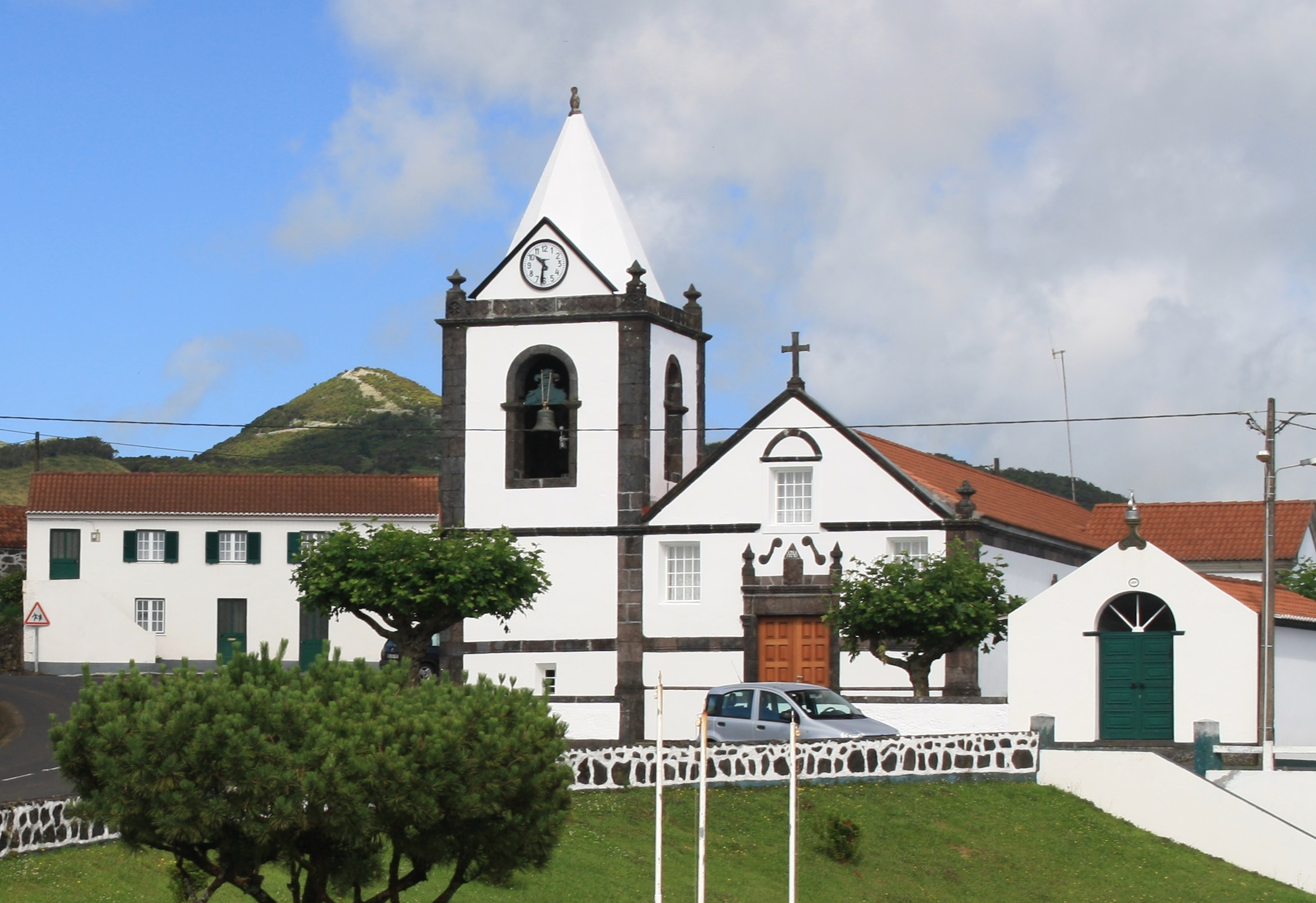 Church of São Lázaro, Norte Pequeno, Calheta, São Jorge (Azores), Portugal